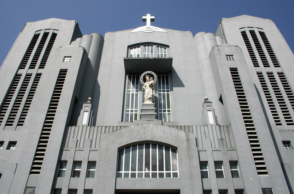 Mary Help of Christians Cathedral in Shillong, Meghalaya by Charlie Jackson